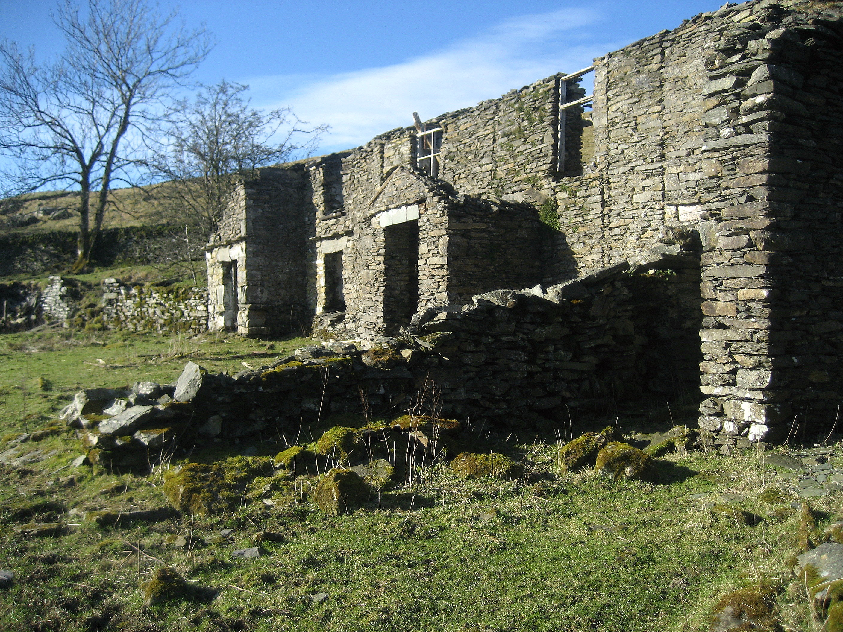 Abandoned Farmhouse at East View Slowly descending into total dereliction, this sad farmhouse looks that it has gone past the point of no return.